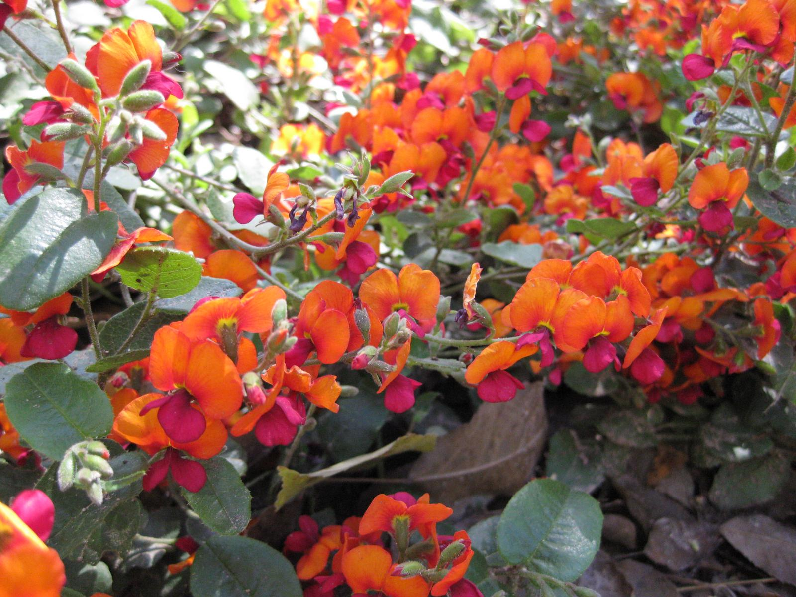 Photographed at Huntington Gardens (Los Angeles, California) in March